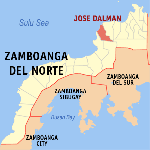 Map of the Zamboanga del Norte showing the location of Dalman